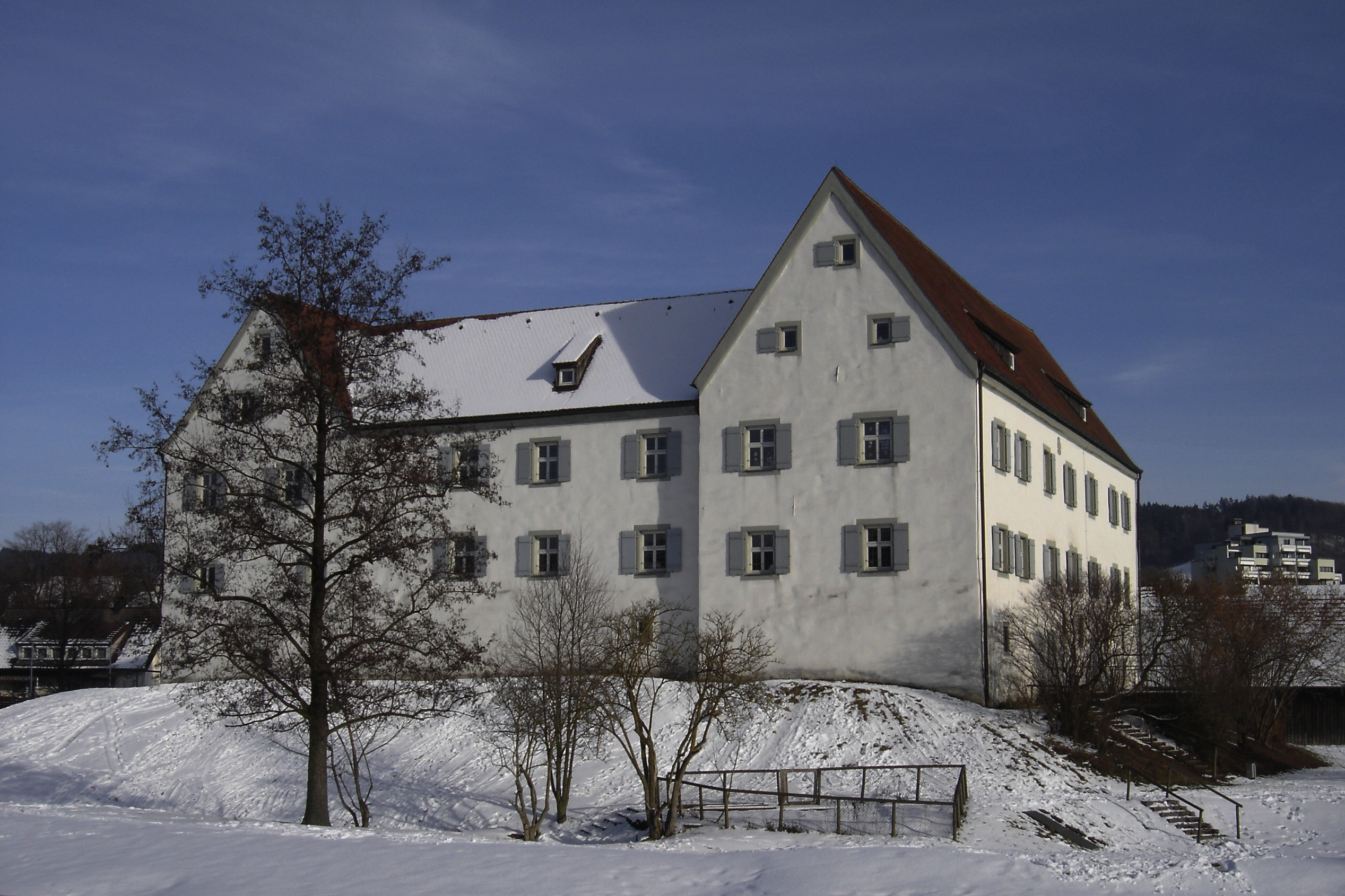 Castle of Wasseralfingen